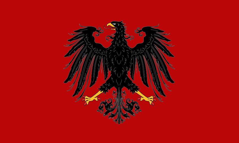 Socialist Reich Party flag